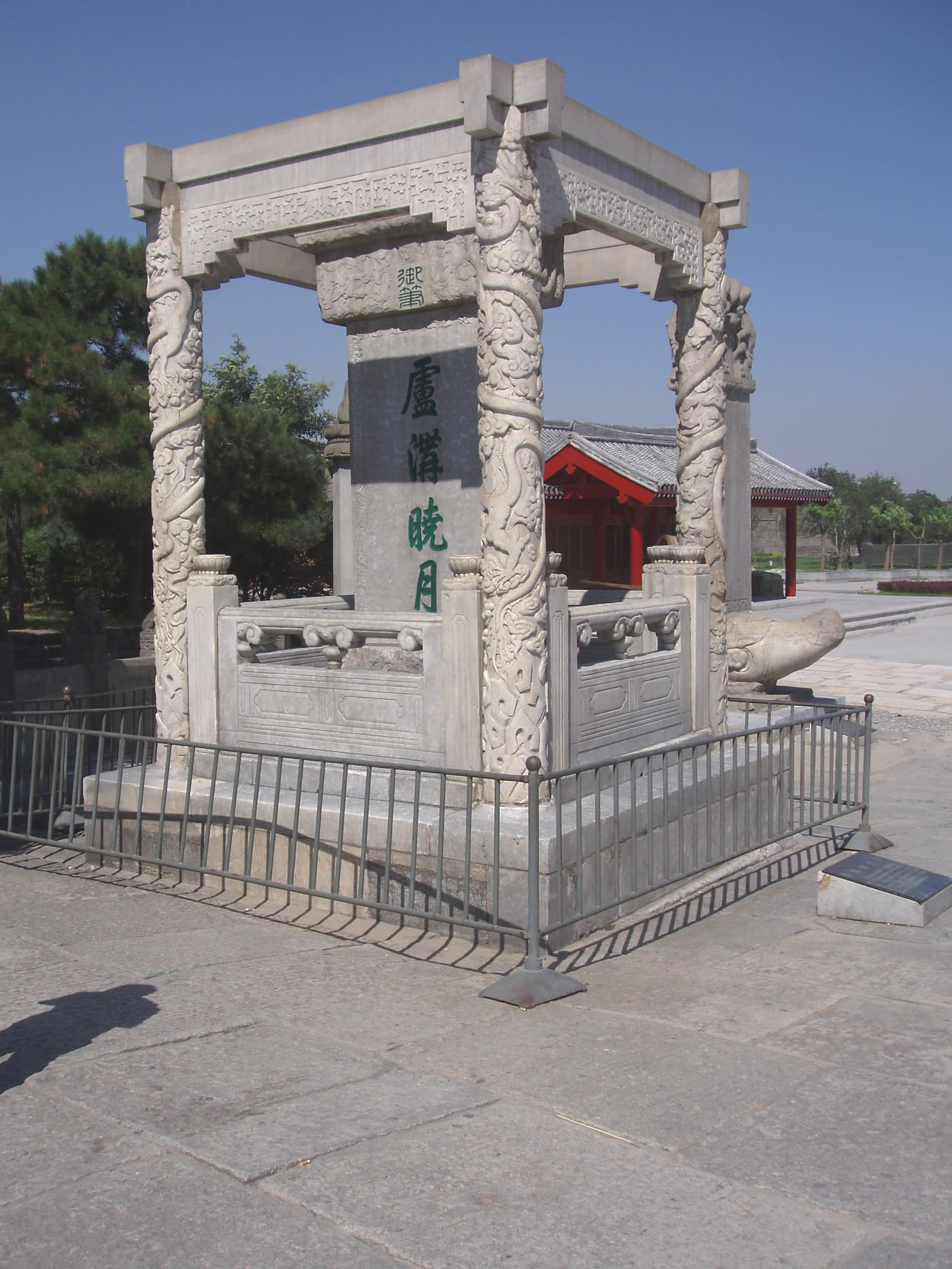 The stele with Qianlong Emperor's words, "卢沟晓月" ("Morning Moon over the Lugou (River)"), near the eastern end of Marco Polo Bridge (Lugou Bridge). Behind this stele one can see an older stele, carried on the back of an eroded bixi tortoise; that one commemorates Kangxi Emperor's rebuilding of the bridge.